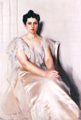 Frances Folsom Cleveland, First Lady of the United States from 1886 to 1889 and from 1893 to 1897, during the double presidential tenure of her husband, President Grover Cleveland